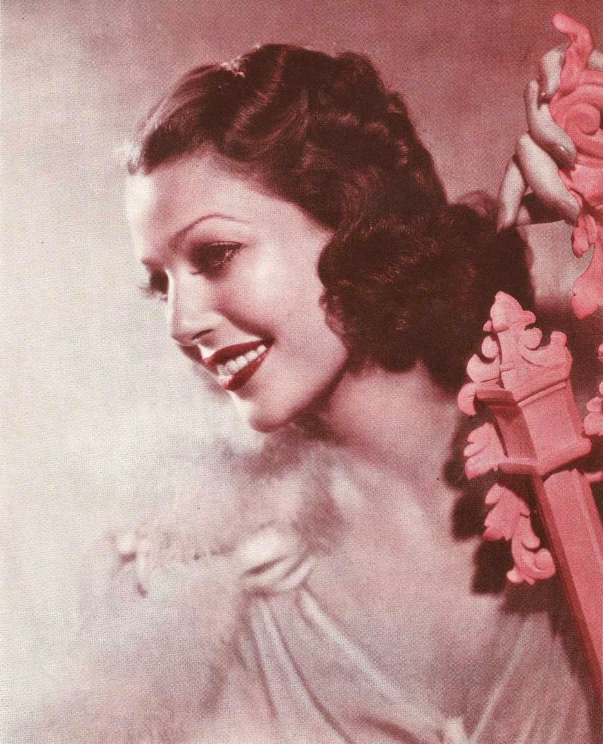 Publicity photo of Loretta Young for Argentinean Magazine. (Printed in USA)